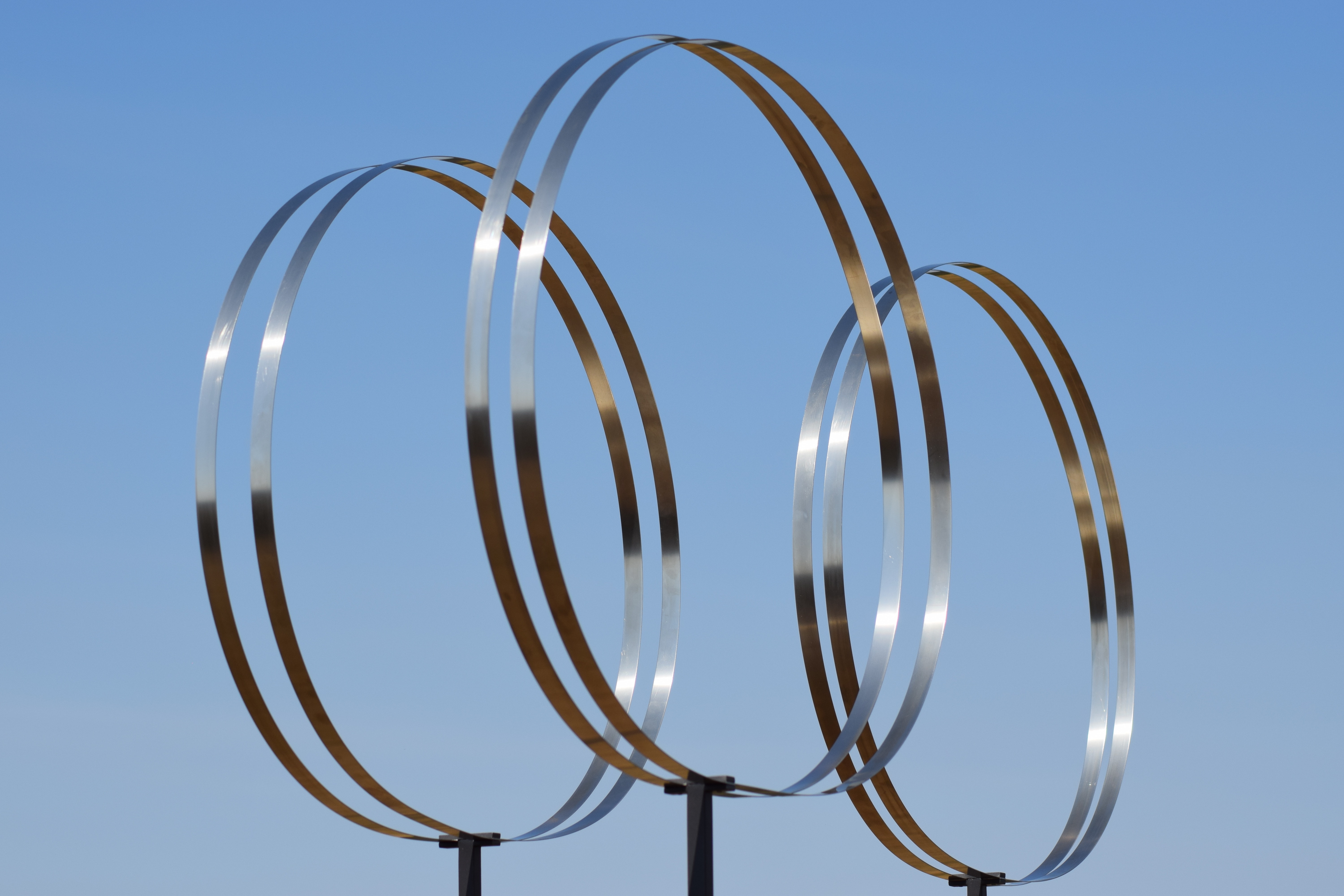 Moving Clouds, Jürgen Heinz, International Windartfestival 2018